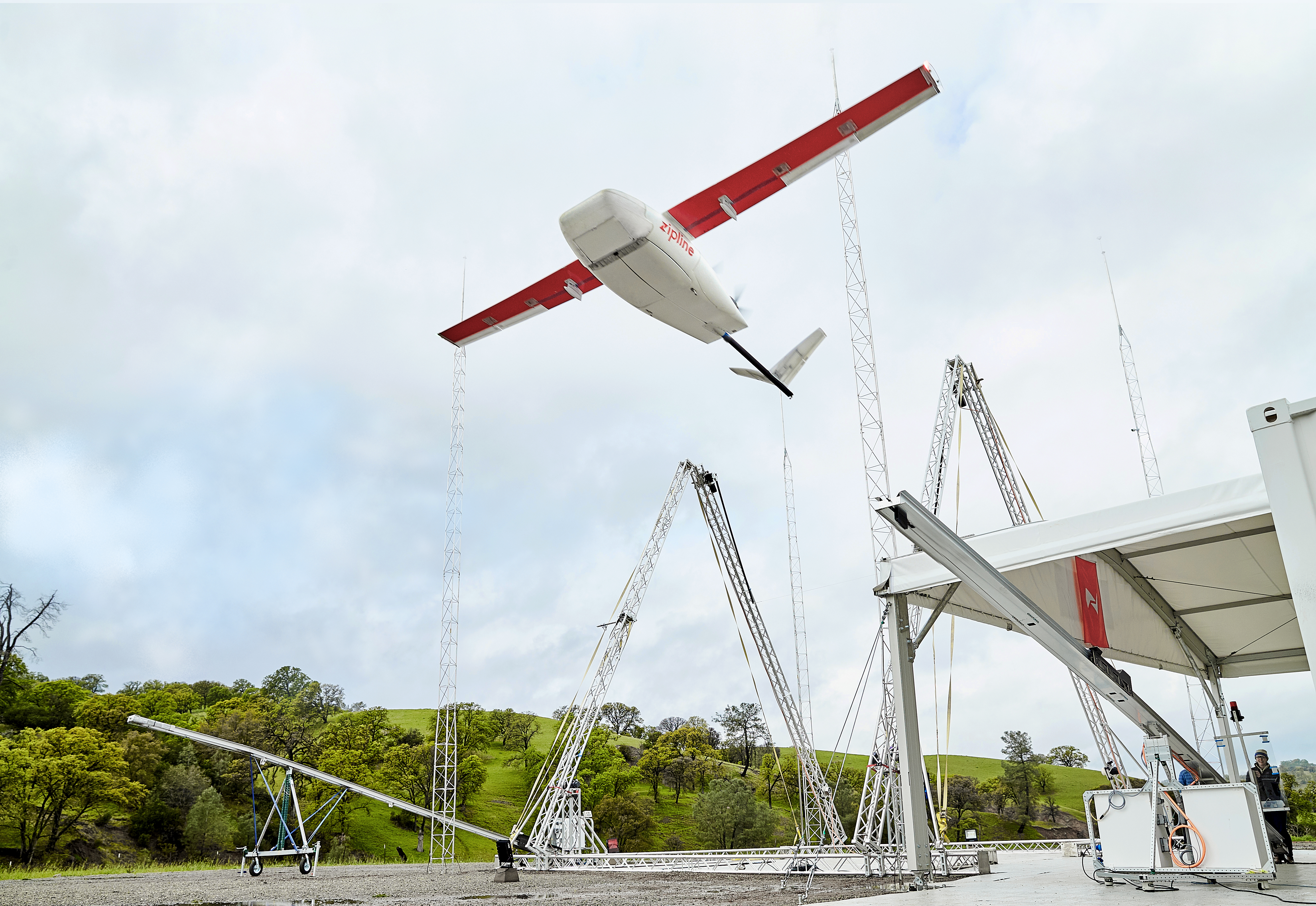 A drone launches from Zipline's California-based test facility